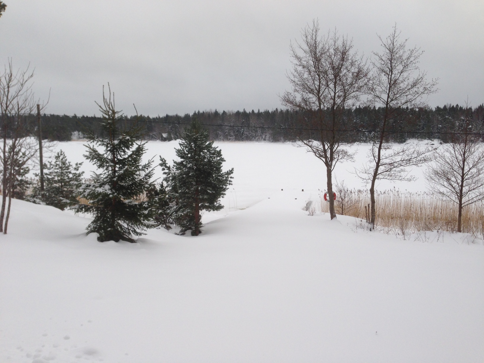 Singö